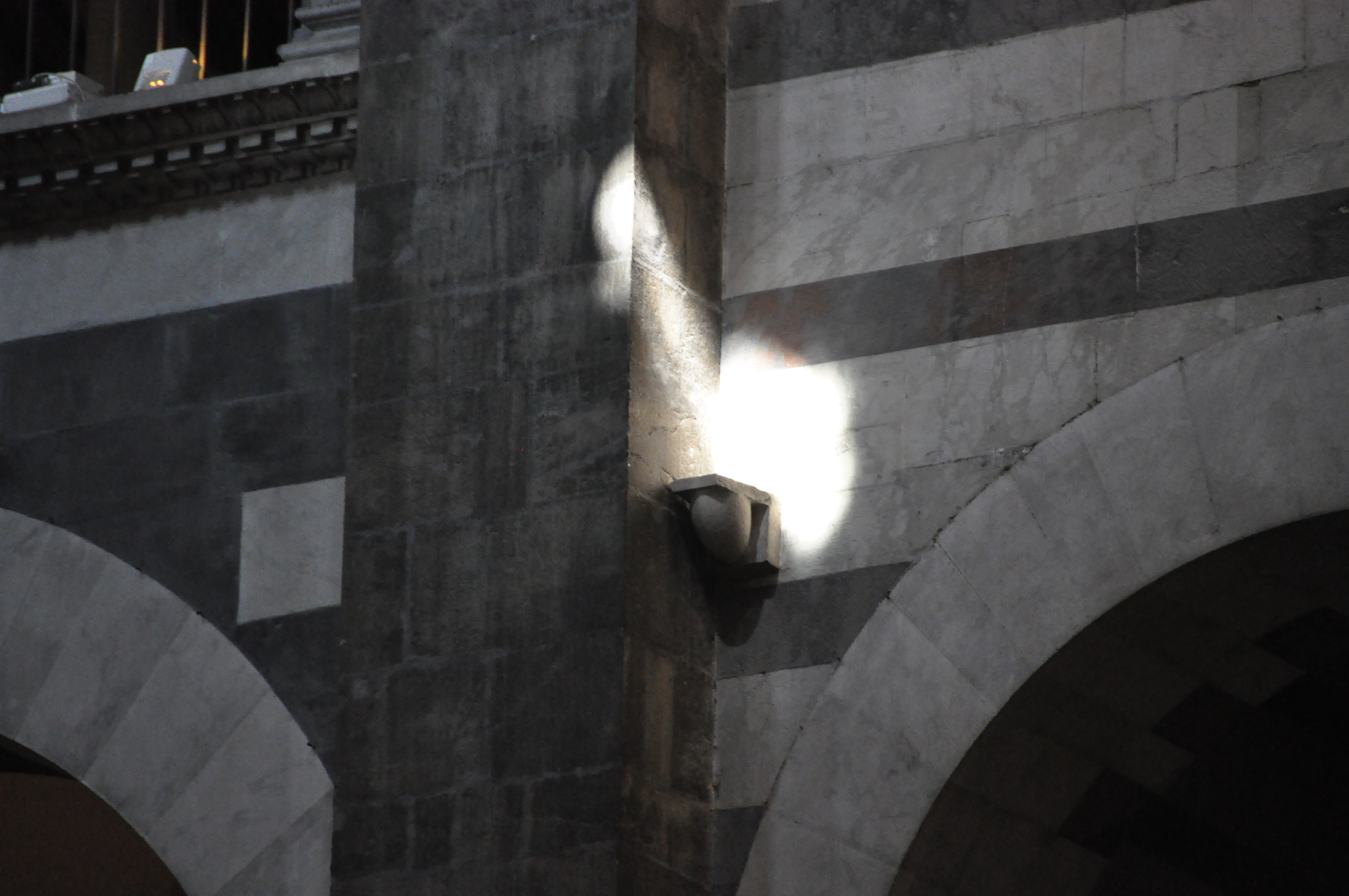 The ray of light hitting the shelf on the top of the stone egg inside the Cathedral of Pisa, starting the Pisan New Year.